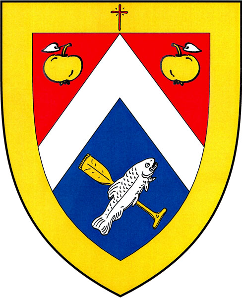 Municipal coat of arms of Těchlovice village, Děčín District, Czech Republic.